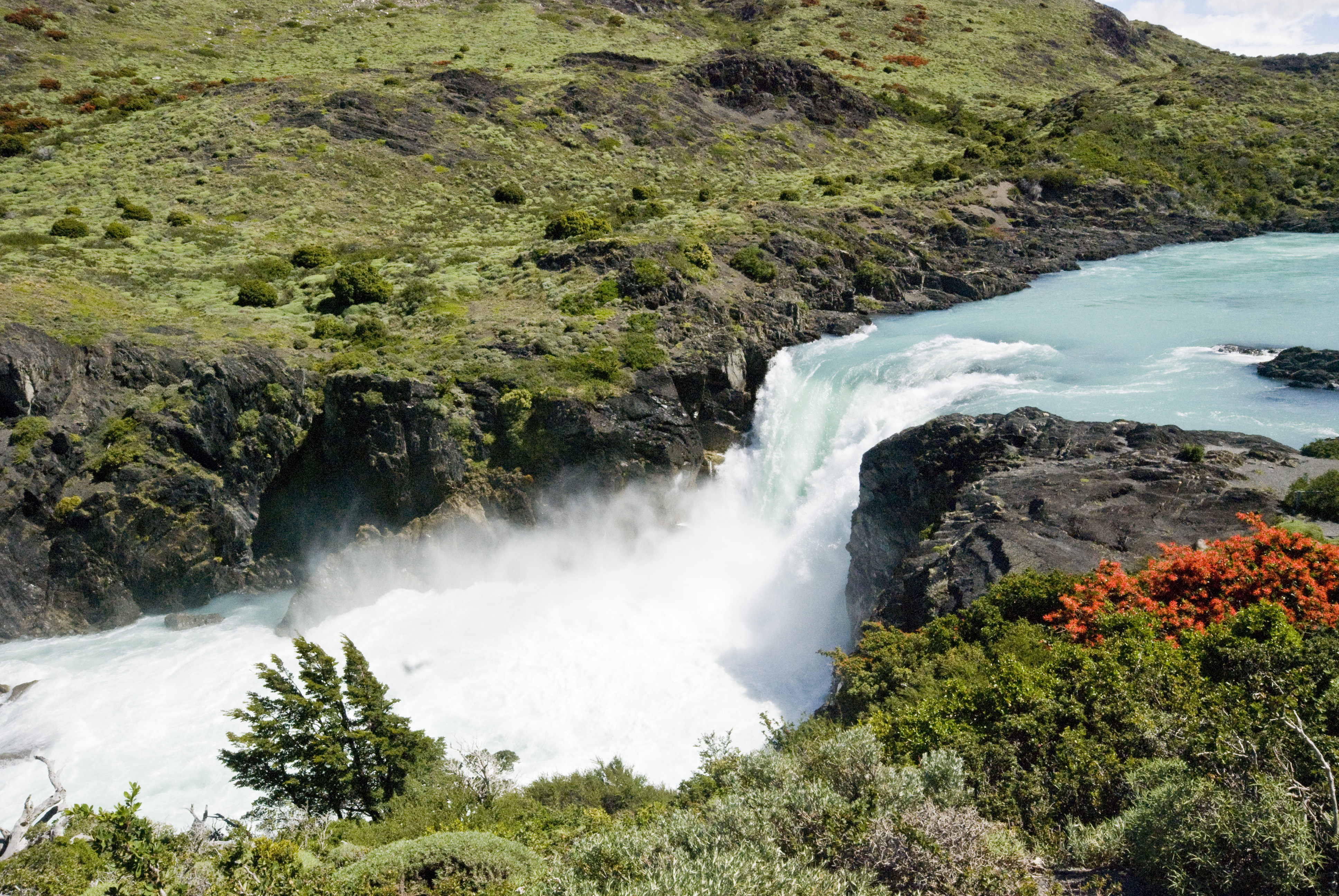 Salto Grande, Torres Del Paine, Chile